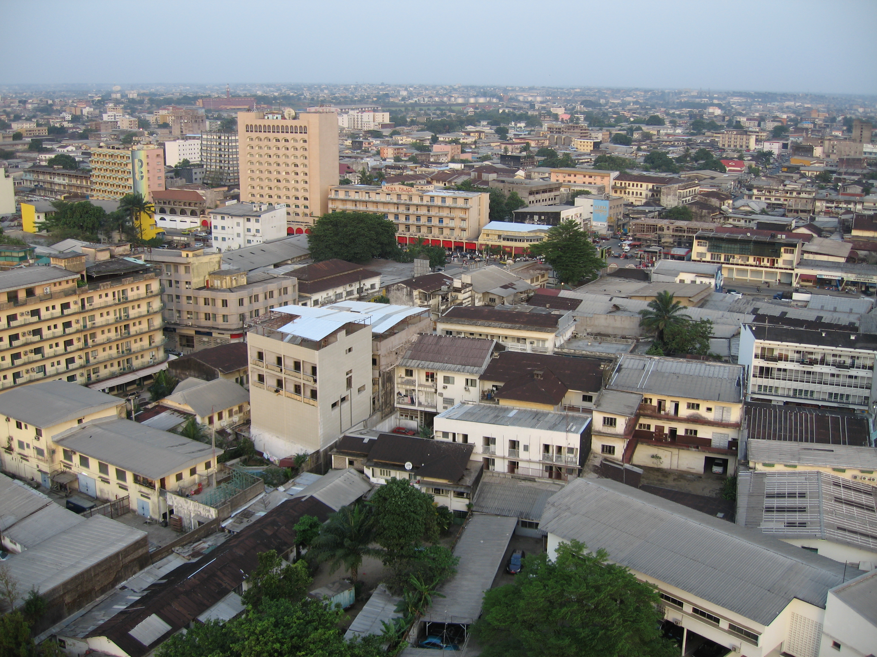 Ars&Urbis International Workshop, organized by doual'art in collaboration with iStrike Foundation, Douala, 2007. Research documentation by Emiliano Gandolfi.